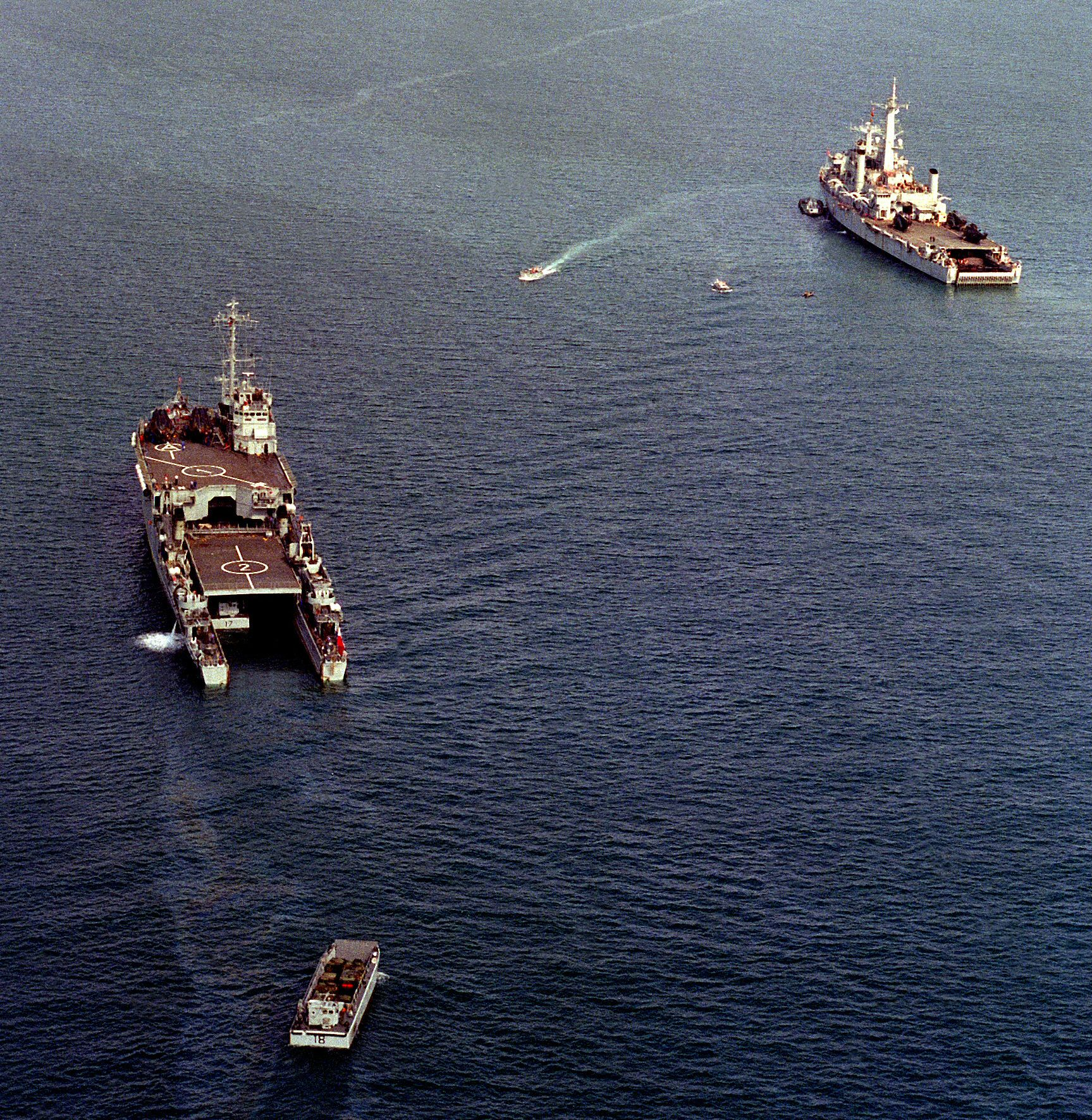 The French landing ship dock Ouragan (L9021), left, its stern gate open for landing craft operations, and the Royal Navy amphibious transport dock HMS Intrepid (L11) sitting offshore during the NATO southern region exercise "DRAGON HAMMER '90" on 3 May 1990.